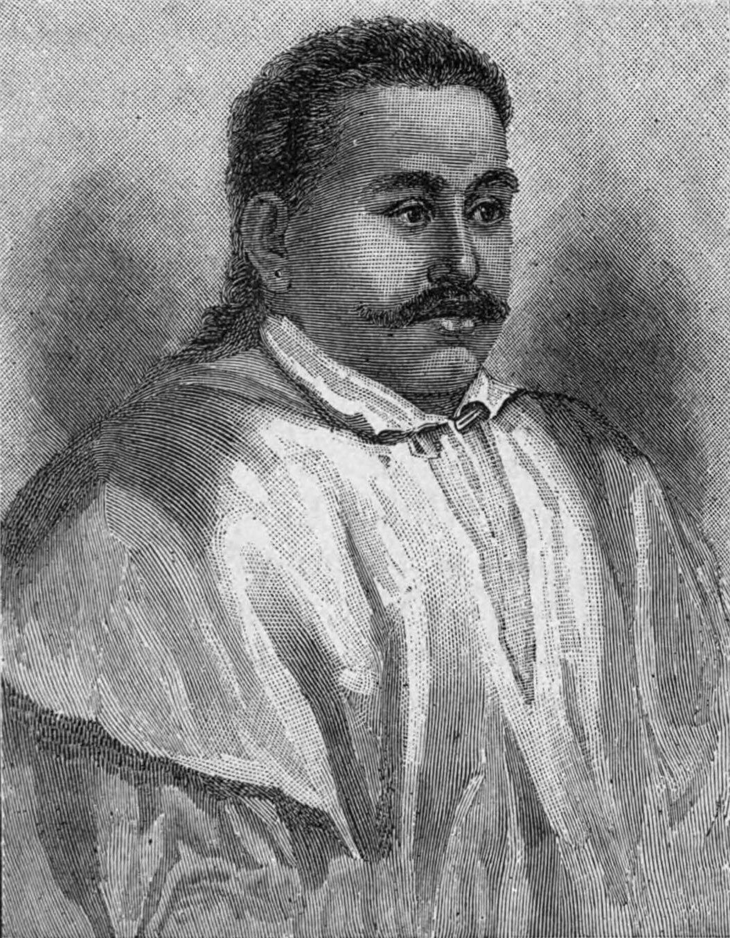 Pomare II. After engraving by R. Hicks.